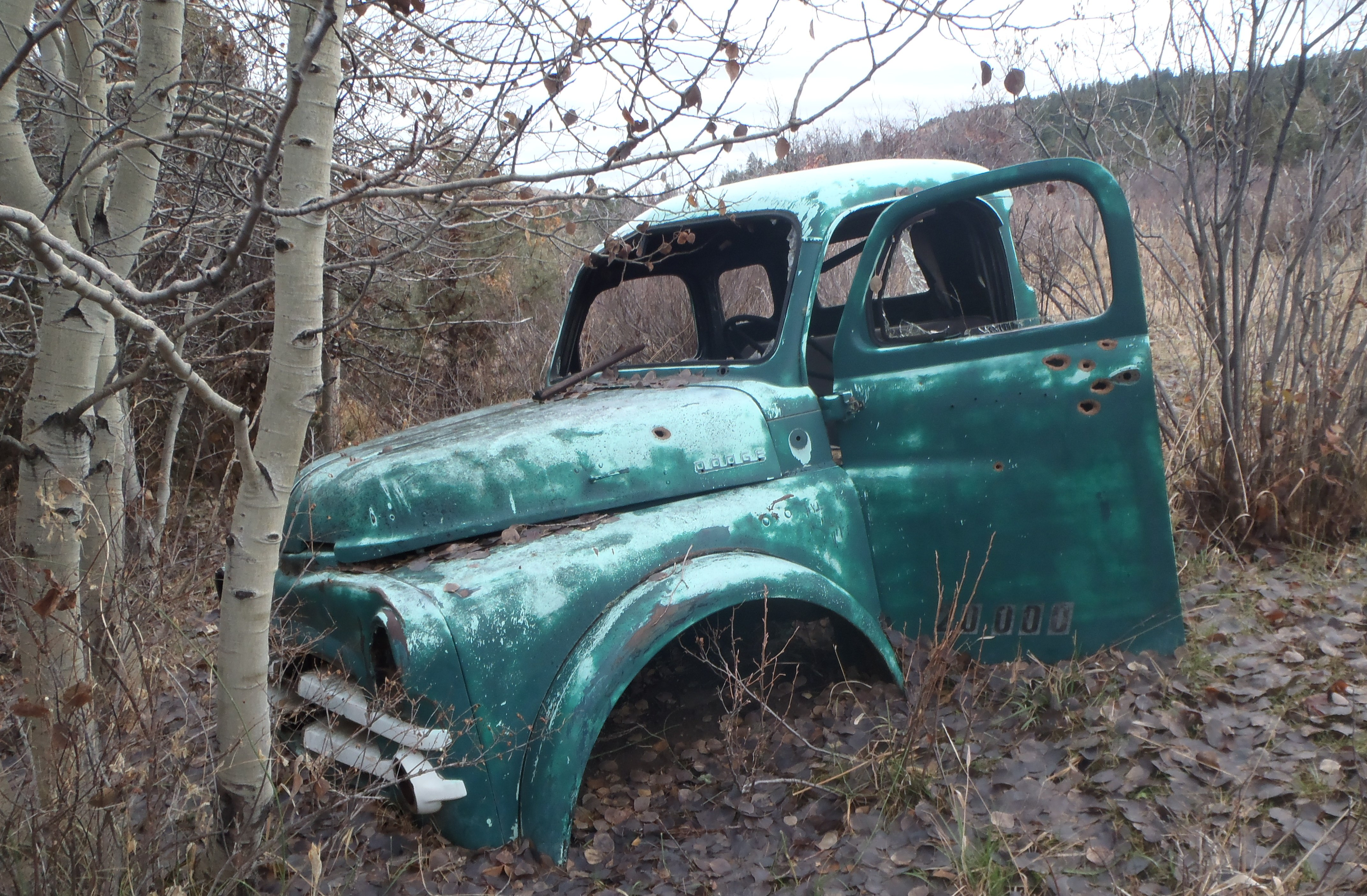 Abandoned Vehicle Photo by Kevin Hoskins/BLM Oregon